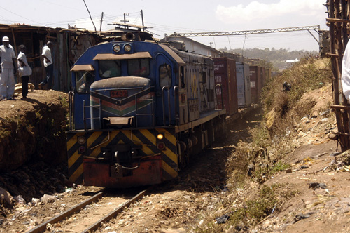 Goods train passes trough a slum (in Kenia)